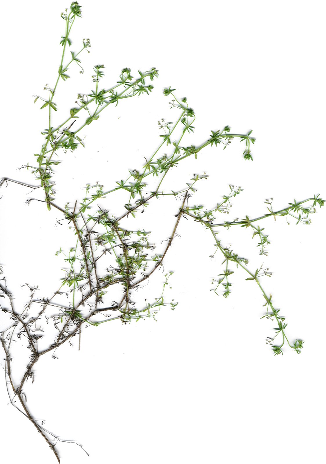 Galium divaricatum (plant). Location: Maui, Pohakuokala Gulch